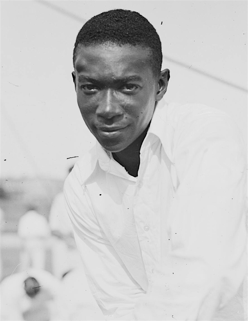 George Headley in his cricket whites during the West Indian cricket team's 1930–31 tour of Australia.